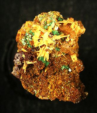 Uranospinite, Walpurgite Locality: Walpurgis Flacher vein, Weißer Hirsch Mine (Shaft 3), Neustädtel, Schneeberg District, Erzgebirge, Saxony, Germany (Locality at ) Size: thumbnail, 1 x 1 cm Walpurgite with Uranospinite It is VERY probable that this specimen is from the type find of the species (of both of them, for that matter) in the 1870s, as it soon after found its way to the collection of Clarence Bement by the late 1800s and he had many contacts to send him superb examples of new species. Even after, this notable old find was not surpassed in quality, although a few later pockets were found over the years. A Walpugis specimen today on the market is EXTREMELY rare and I have seen but a handful (and bought up every one). This specimen contains crystals of bright yellow walpurgite showing sharp crystal form (distinguishing them from a later find of richer coverage, but smaller XL size), mixed with bright green plates of uranospinite. Zeunerite is also in association as is some minor torbernite. Comes in Bement's ORIGINAL cardboard micromount box, dating to the late 1800s! This specimen was preserved in the Harvard museum collection, from which I obtained it by exchange. (TYPE LOCALITY for BOTH SPECIES).